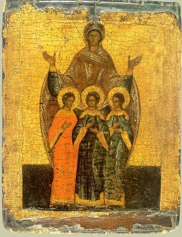 Sophia the Martyr with three daughters: Faith, Hope and Charity. Russian icon.